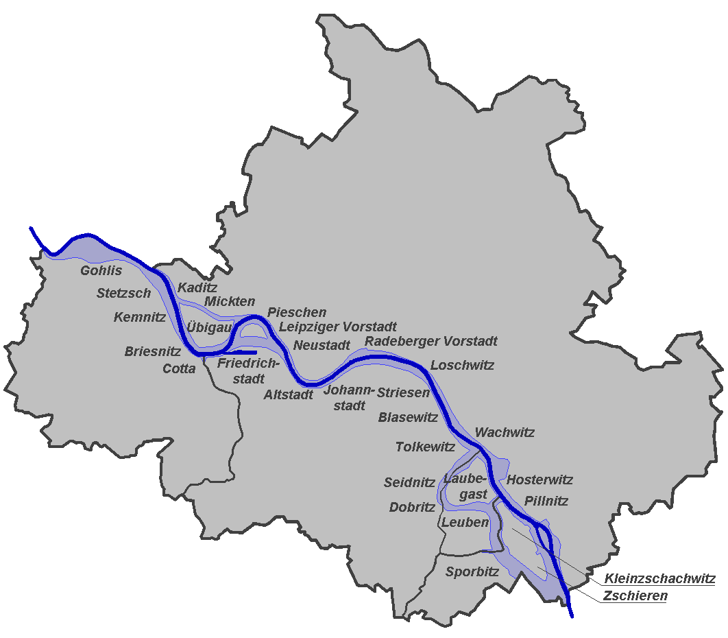 Flood plains of the river Elbe in Dresden (Note: The drawn areas are not as exact as the flood plains declared by official authorities. Please use official documents and maps to get detailed information!)